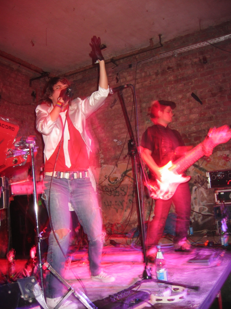 Lesbians On Ecstasy in the AZ Mülheim (Germany) 2